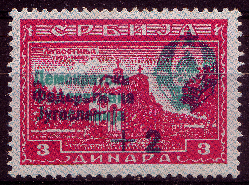 Postage stamp of Serbia overprinted with Democratic Federative Yugoslavia, 3+2 dinara, 1945